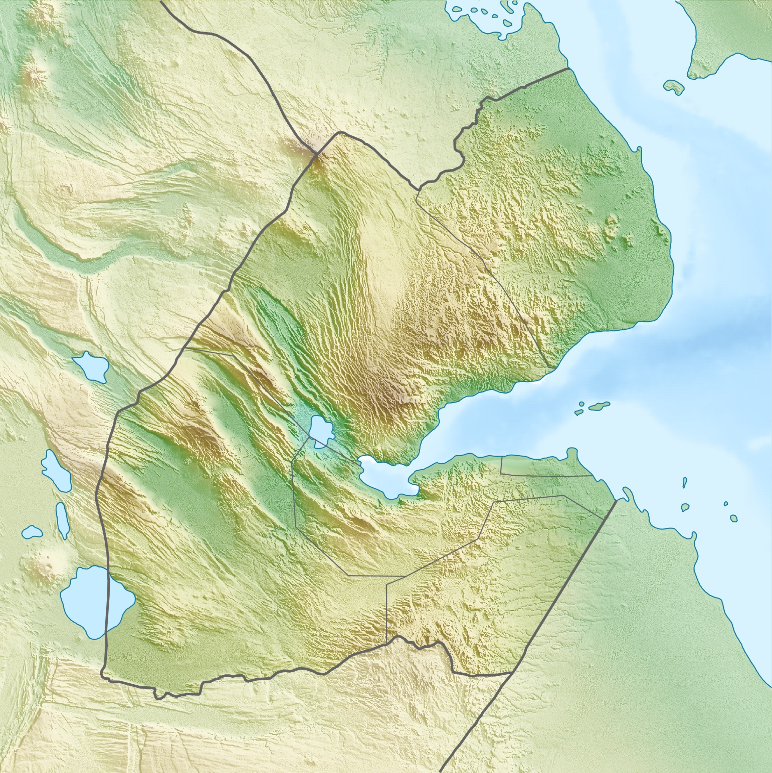 Physical location map of Djibouti Equirectangular projection. Geographic limits of the map: N: 12.9° N S: 10.7° N W: 41.5° E E: 43.7° E